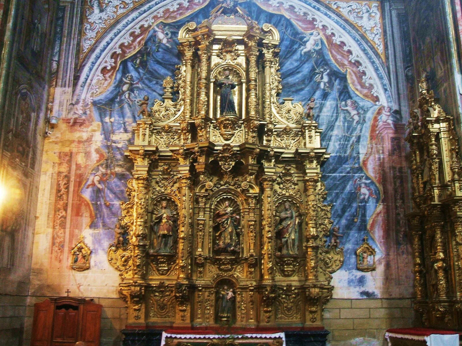 Retablo lateral barroco, dedicado a la Purísima Concepción, en la Iglesia parroquial de Nuestra Señora de la Asunción, Labastida, Álava, Euskadi, España.